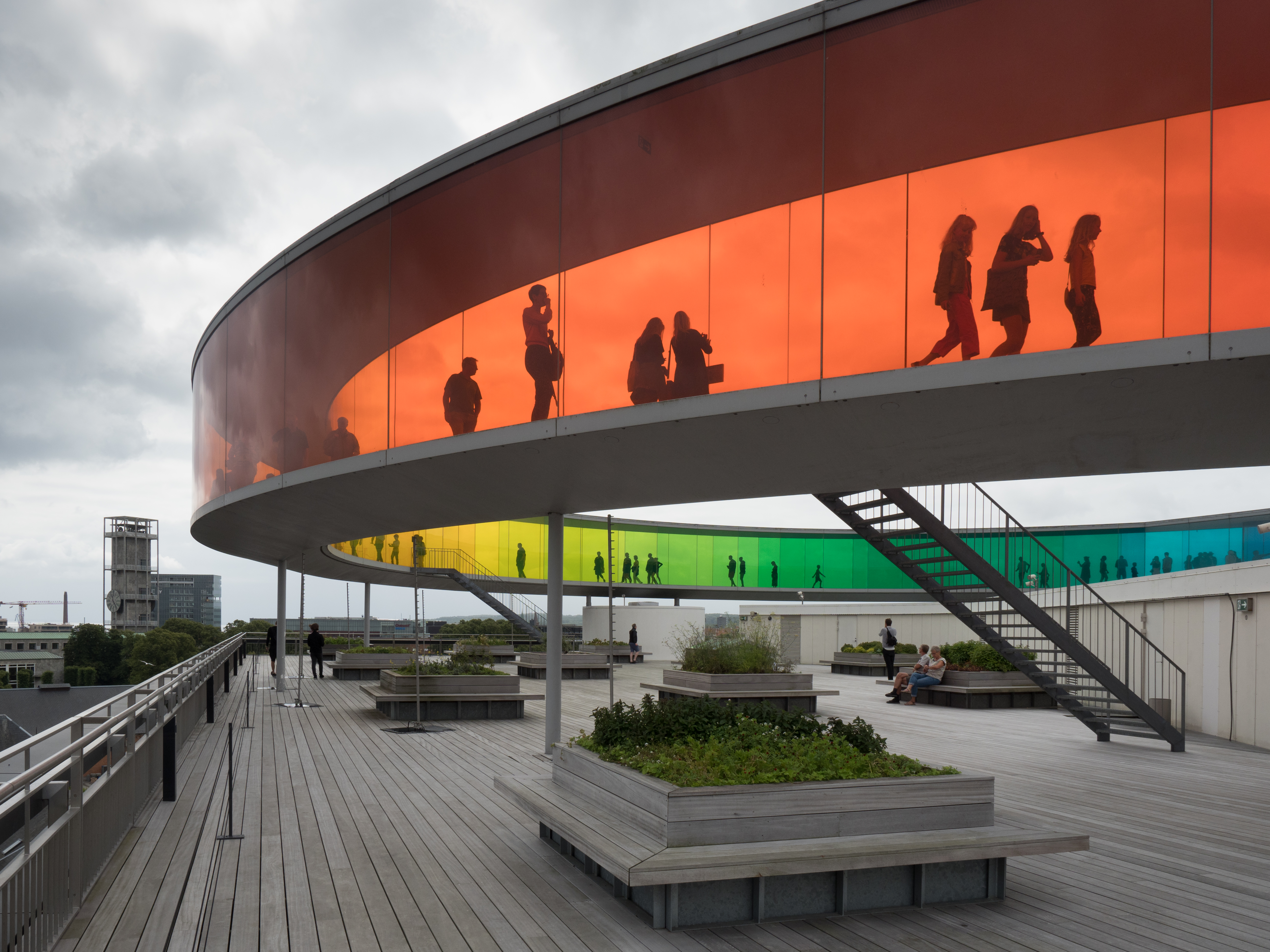 Roof ARoS Aarhus Artmuseum, Arhus, Danmark